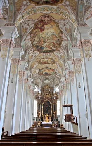 Church of the Holy Ghost, inside view, Munich